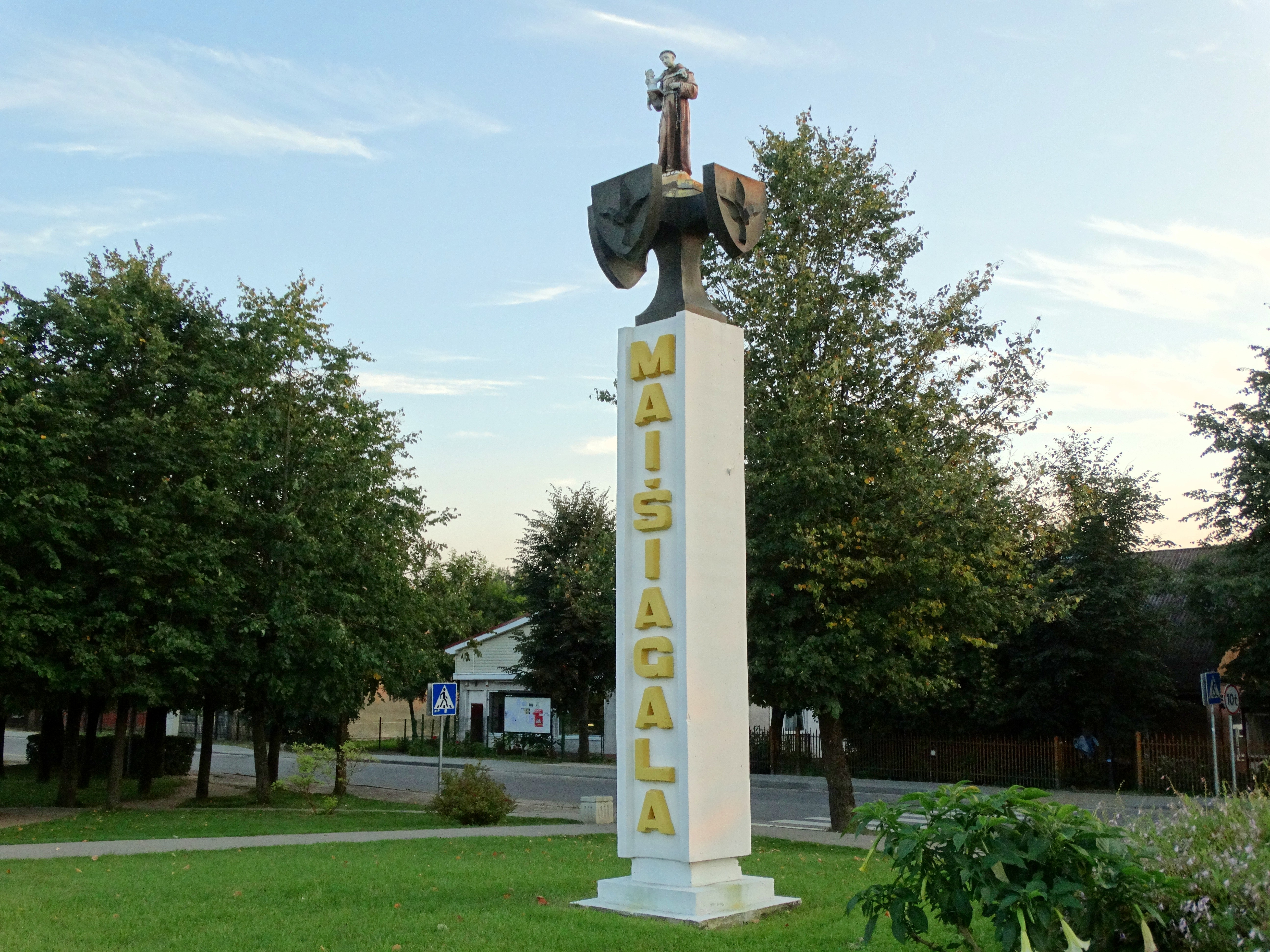 Stela in Maišiagala, Vilnius District, Lithuania